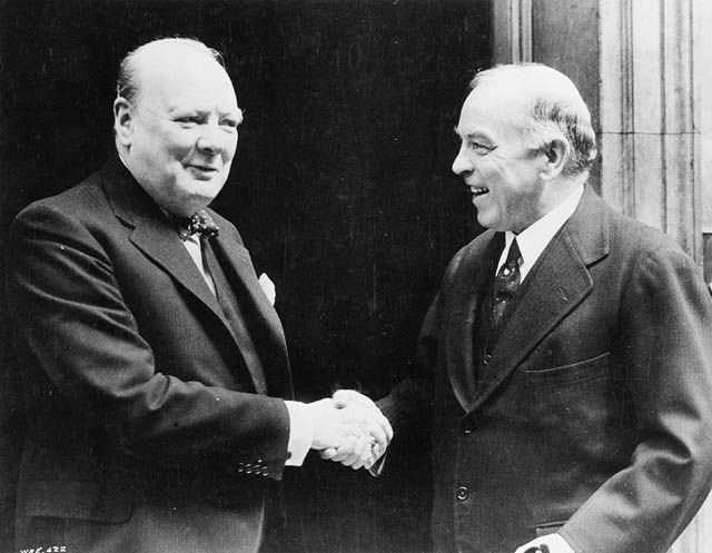 Rt. Hon. Winston Churchill welcoming Rt. Hon. W.L. Mackenzie King to London